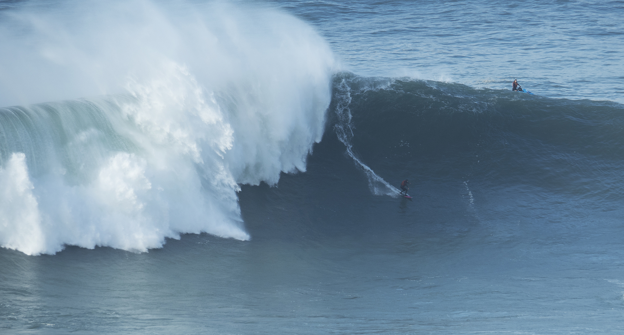 Russian surfer Sergey Mysovskiy surfing big wave in Nazare Portugal